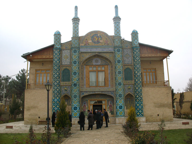 Ayyenehkhaneh bojnoord